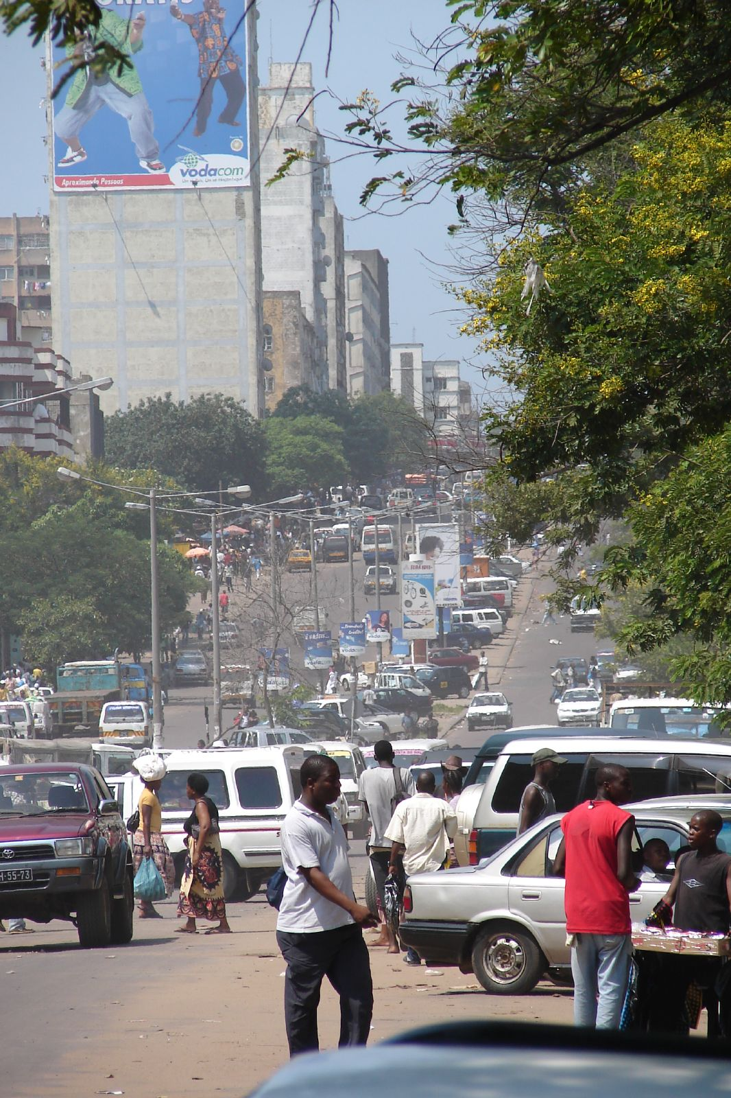 View over Avenida Eduardo Mondlane, Maputo, Mozambique